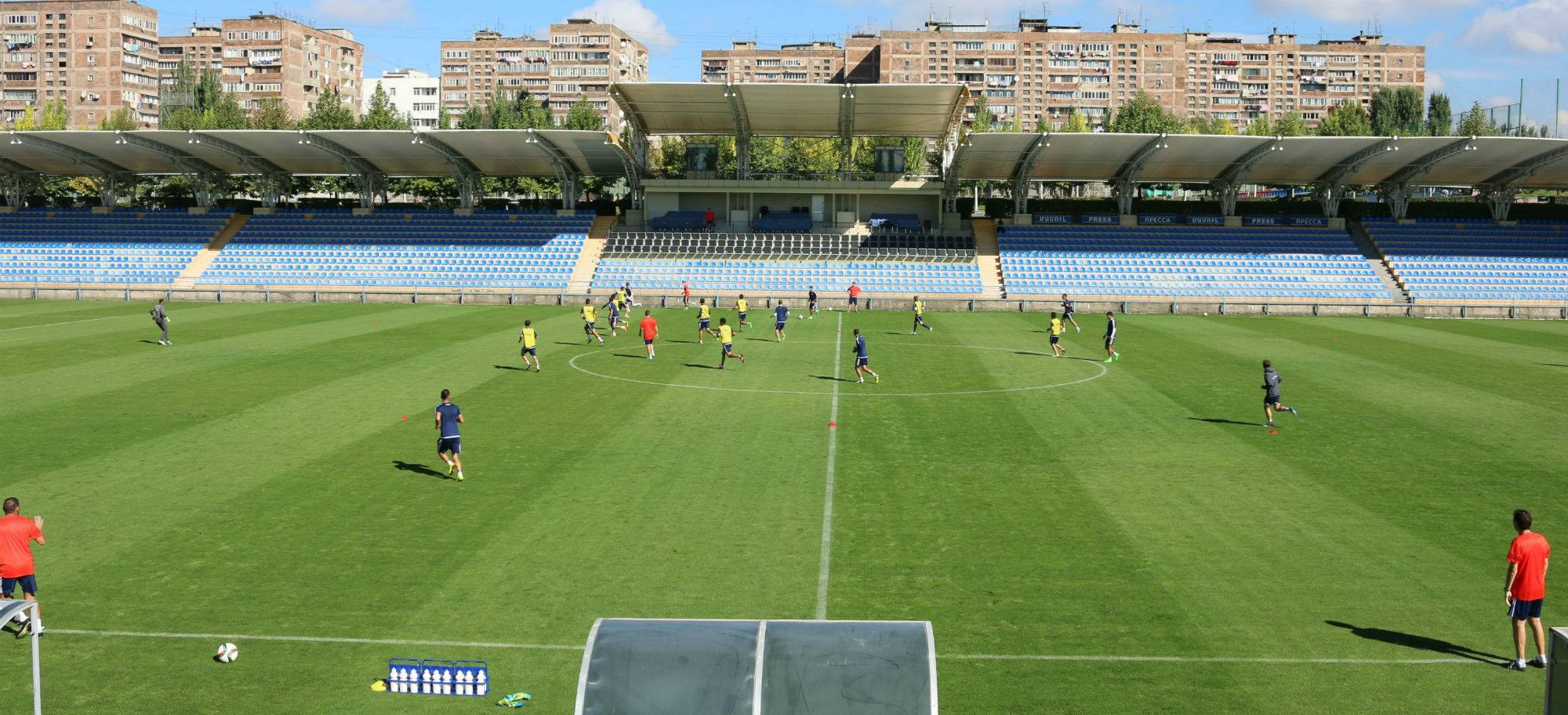 Banants stadium, Yerevan, 1 Sept. 2015